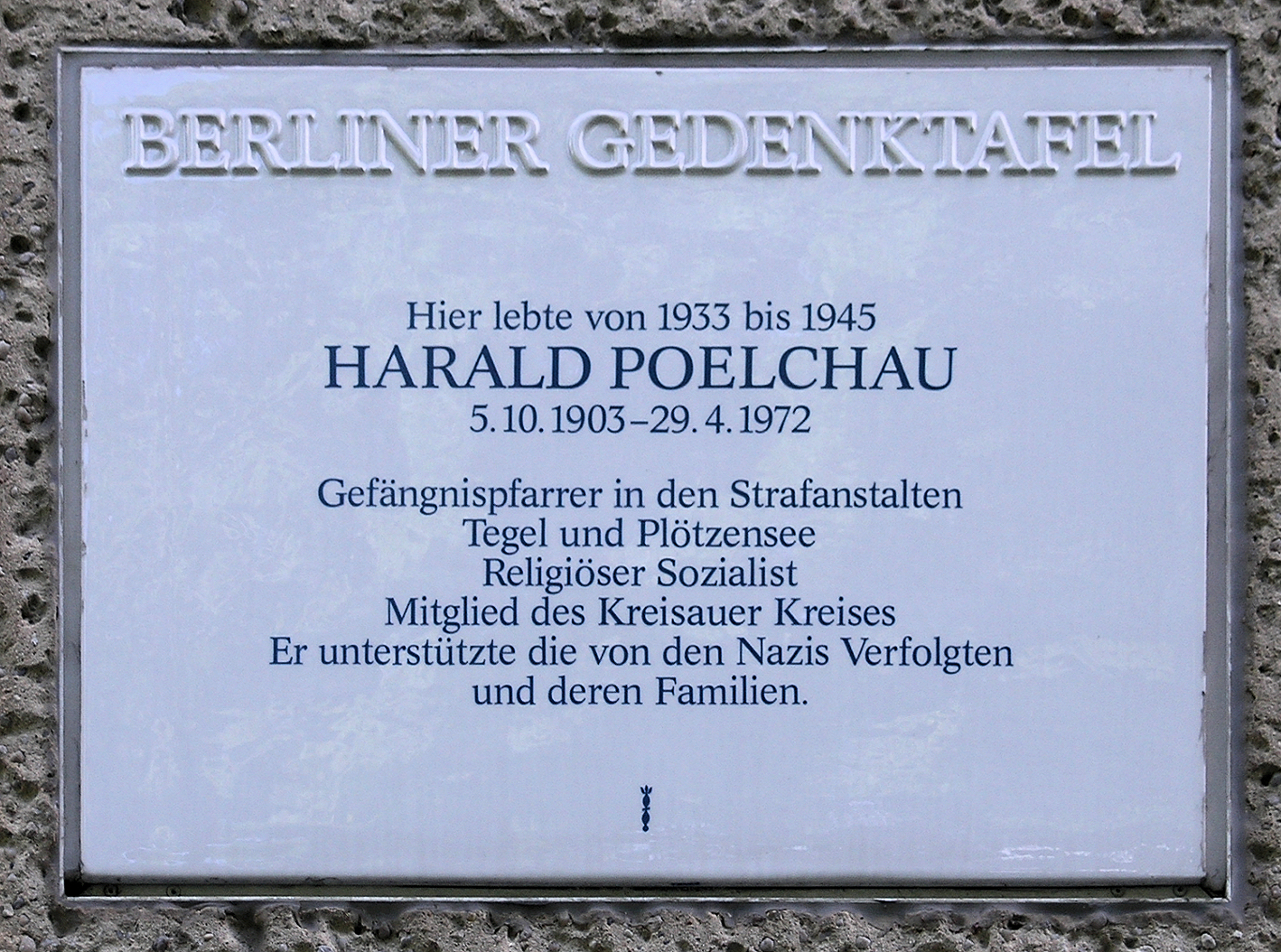 Berlin memorial plaque, Harald Poelchau, Afrikanische Straße 140b, Berlin-Wedding, Germany Koordinate:52°33′30″N 13°20′5″E / 52.55833°N 13.33472°E